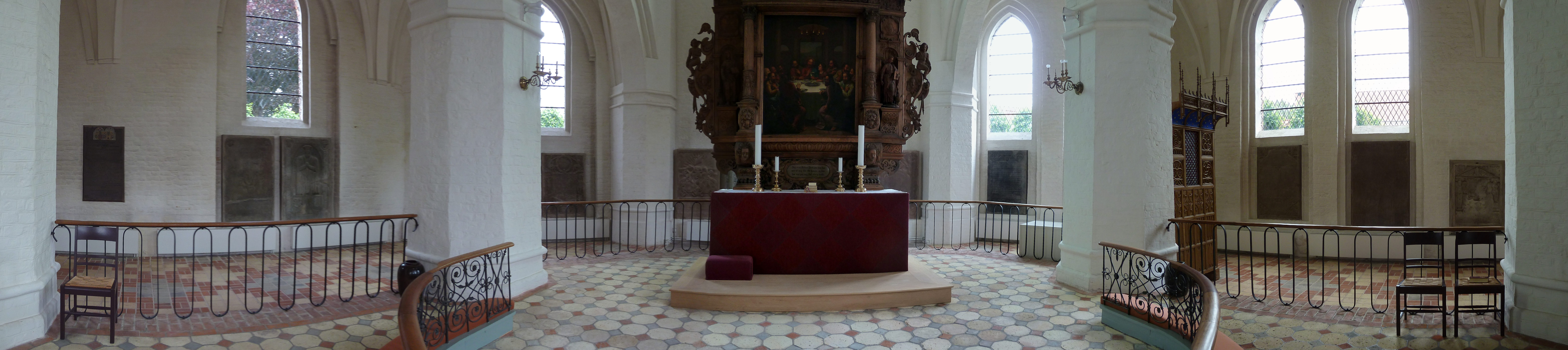 A panorama of the chancel of Church of Our Lady in Assens, Denmark